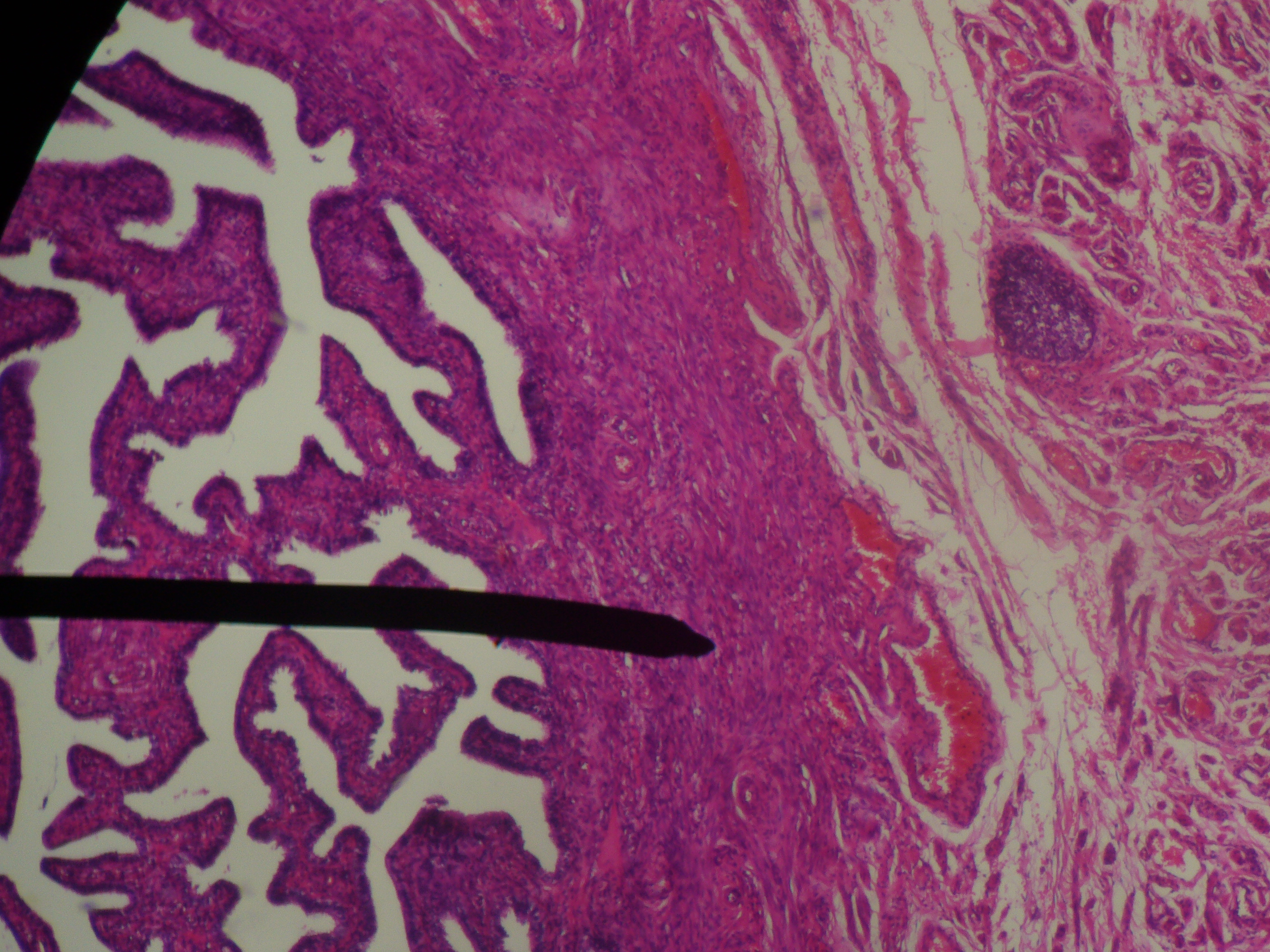 Author's own picture. Digital camera shot though a microscope; human fallopian tube wall.